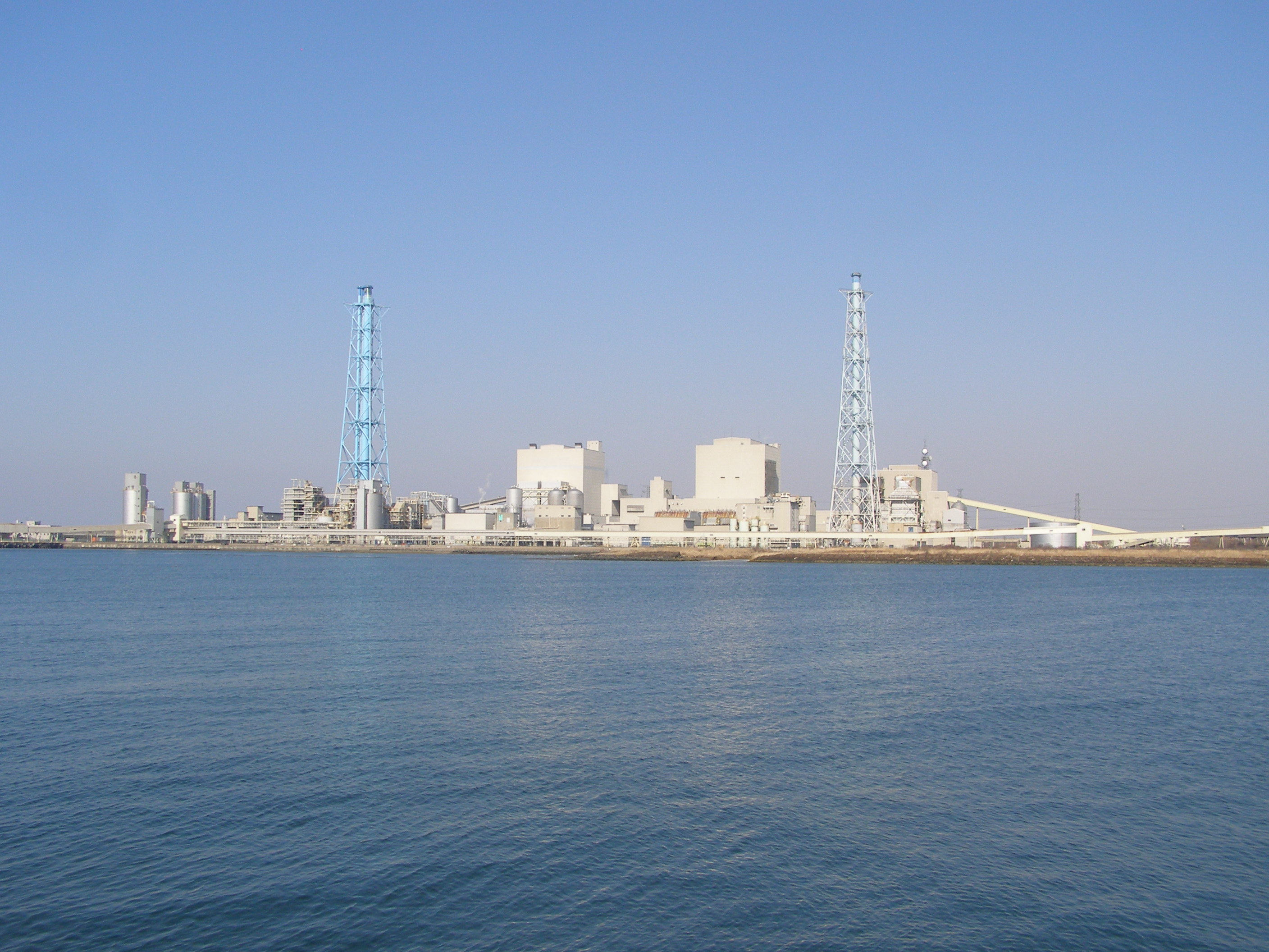 Tomatō-Atsuma Power Station in Atsuma, Hokkaido, Japan.